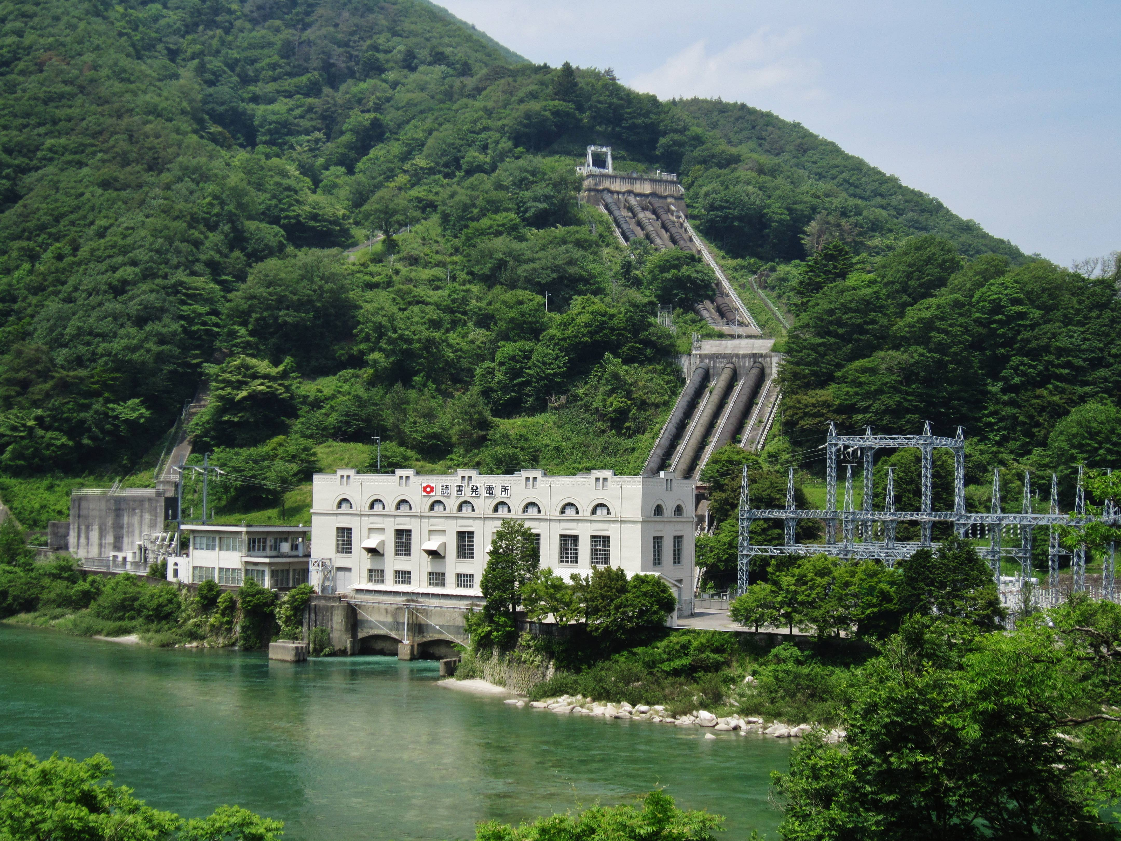 Yomikaki power station.